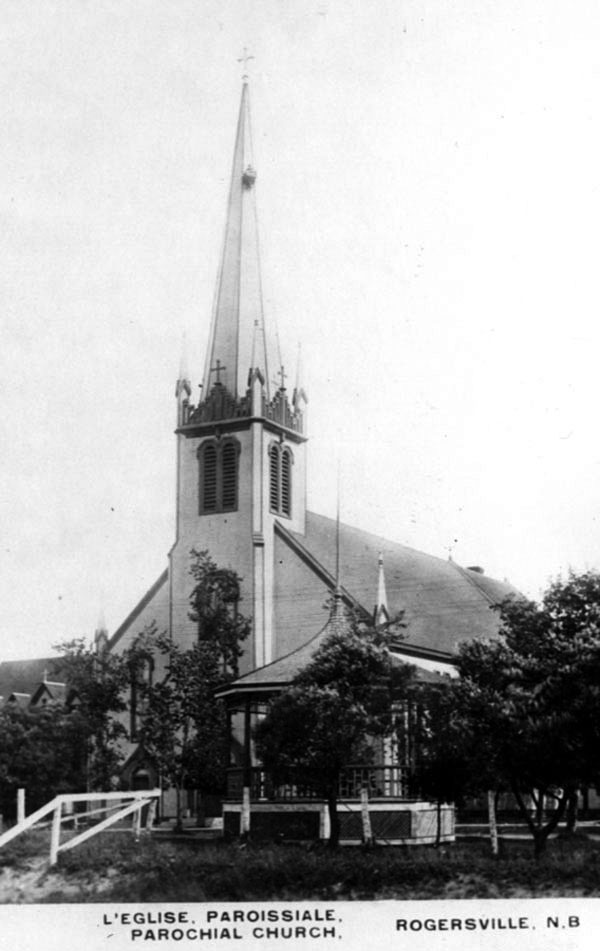 Saint Francois de Sales Roman Catholic Church in Rogersville, circa 1930.